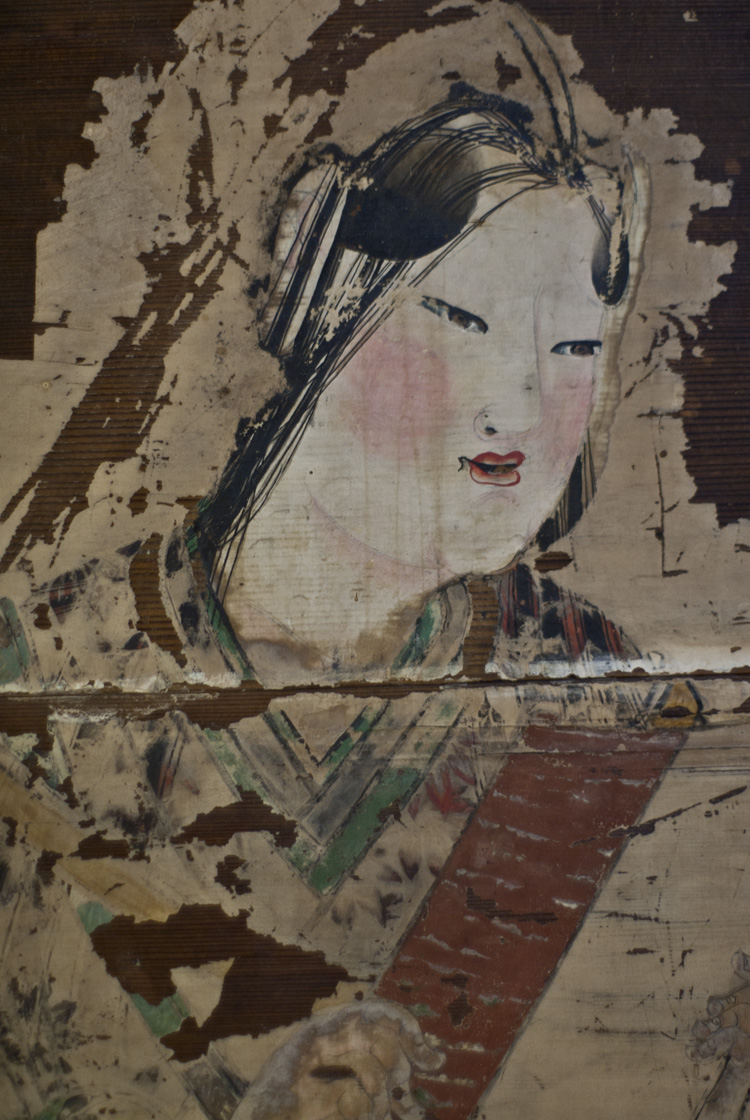 Yaegaki Jinja, Matsue, Shimane, Japan